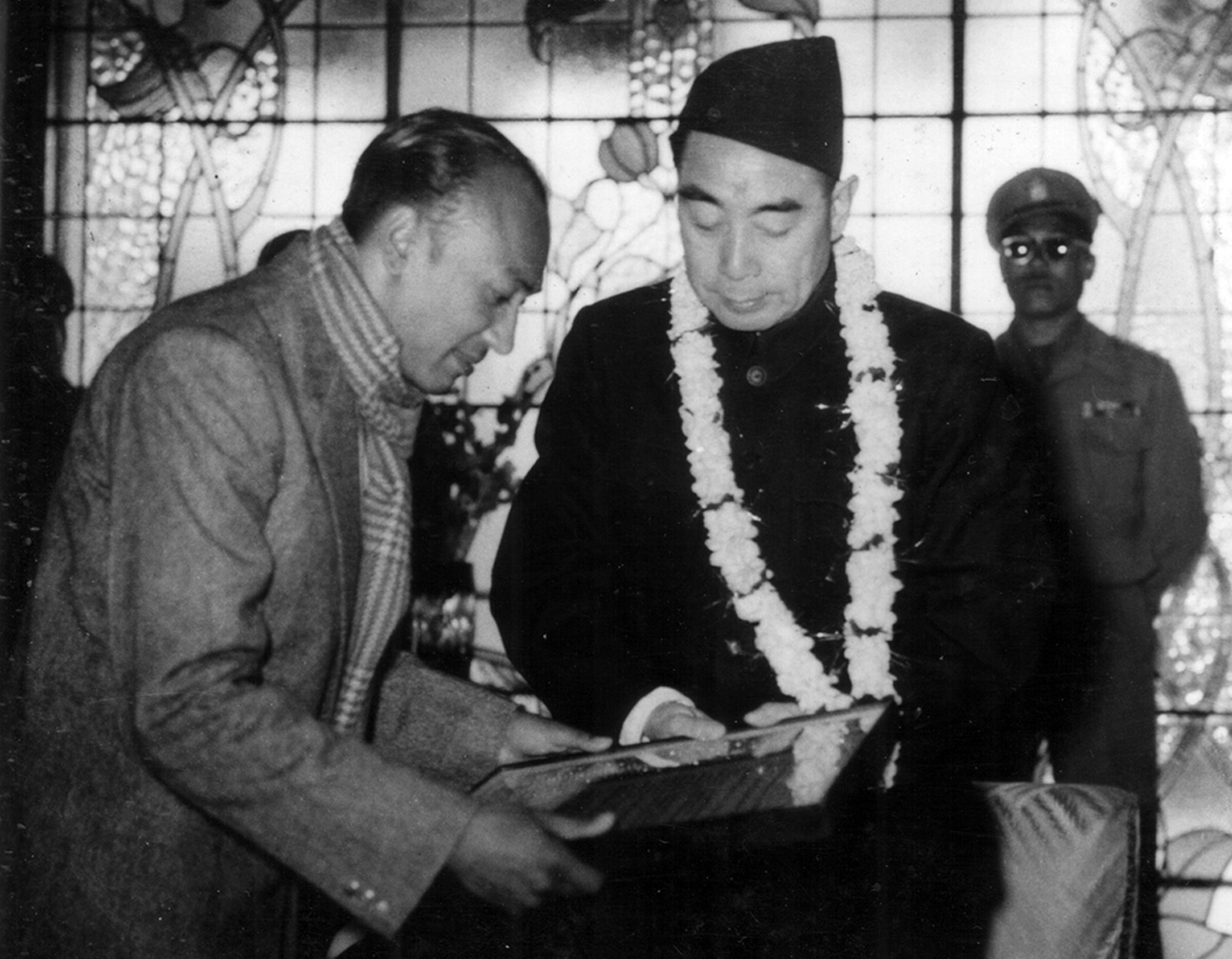 Pushpa Ratna Sagar (left) with Chinese Prime Minister Zhou Enlai at a reception in Kathmandu organized by the Nepalese Chamber of Commerce, Lhasa.